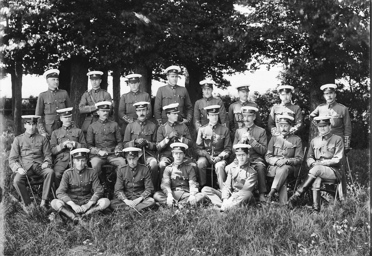 Group of the Suffolk Yeomanry. Courtesy of the Spanton-Jarman Collection, Bury St Edmunds Past and Present Society, Bury St Edmunds, Suffolk, England.